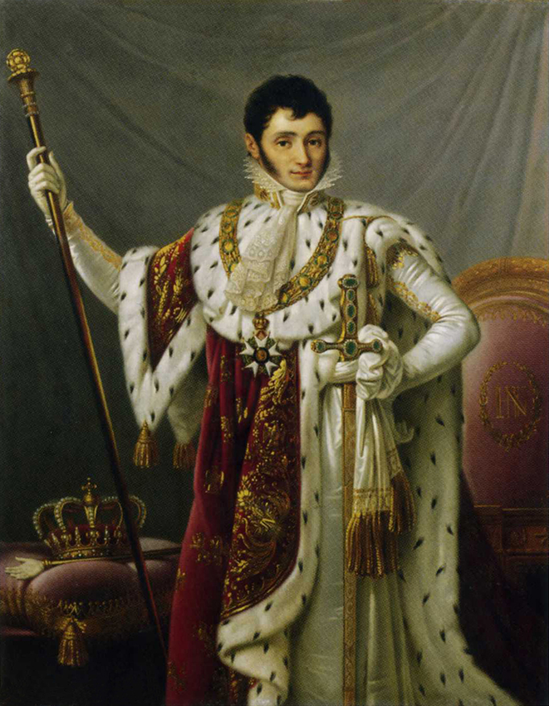 Copy after François Joseph Kinson